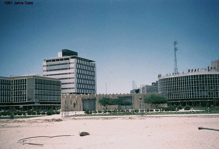 Al Jahra, Kuwait